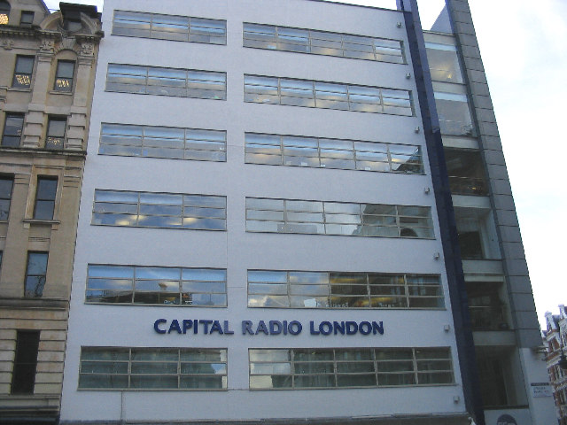 Capital Radio in Leicester Square. Broadcast studios and offices of Capital Radio